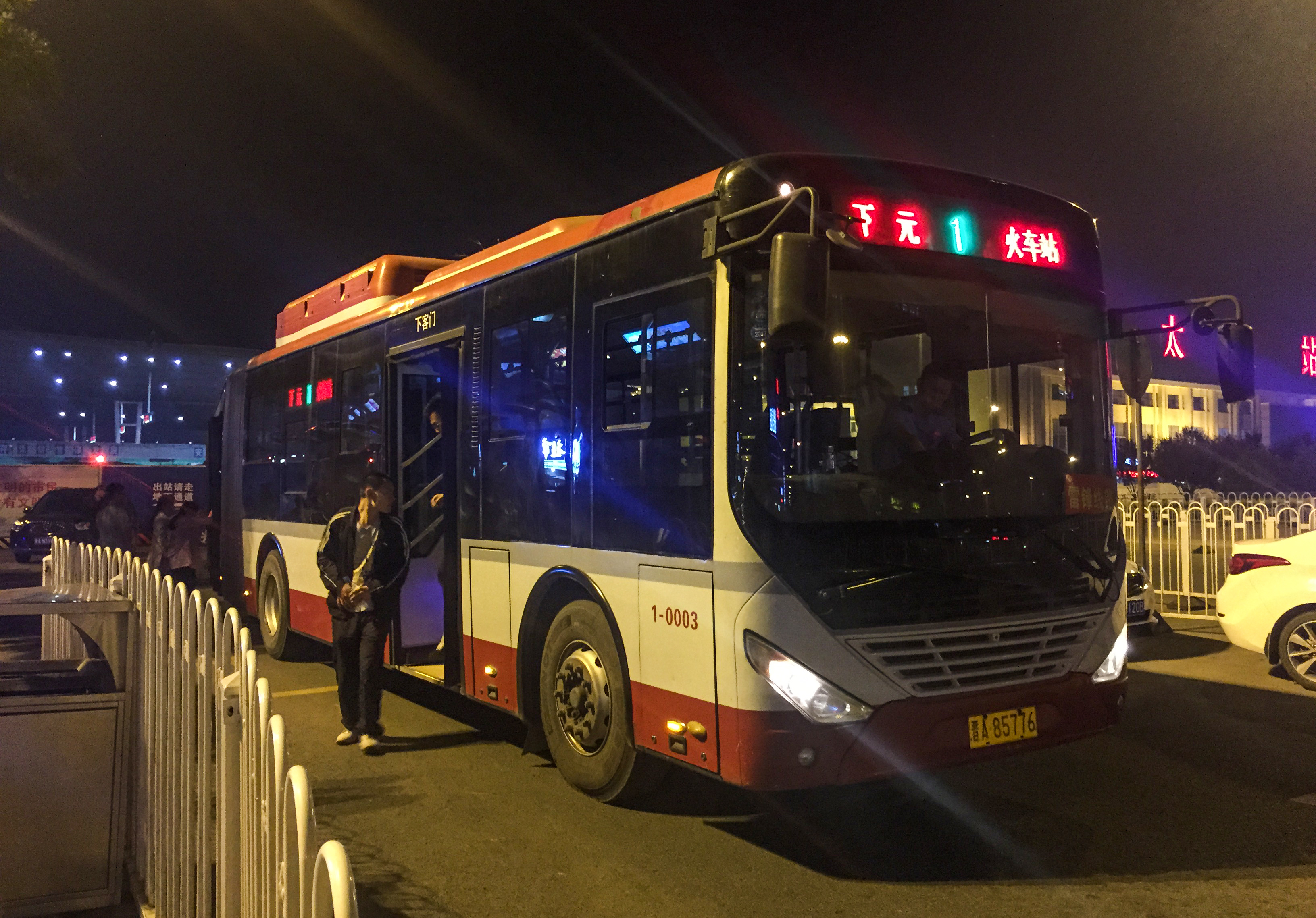 There's still plenty of front-engined buses in Taiyuan, like this LCK6180DGCA front-engined with vacant seat.